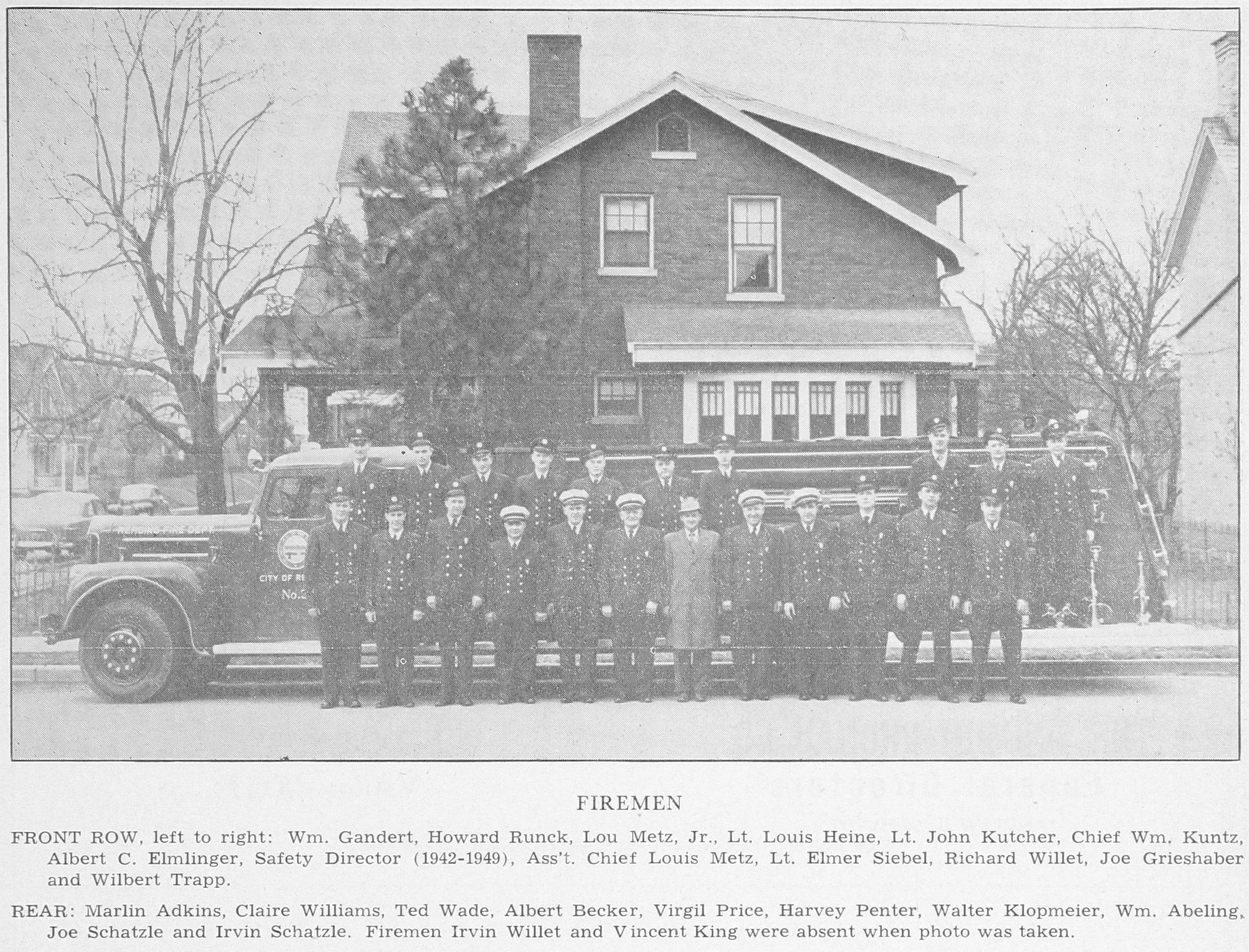 A booklet illustrating the City of Reading, Ohio, on the city’s centennial anniversary in 1951.